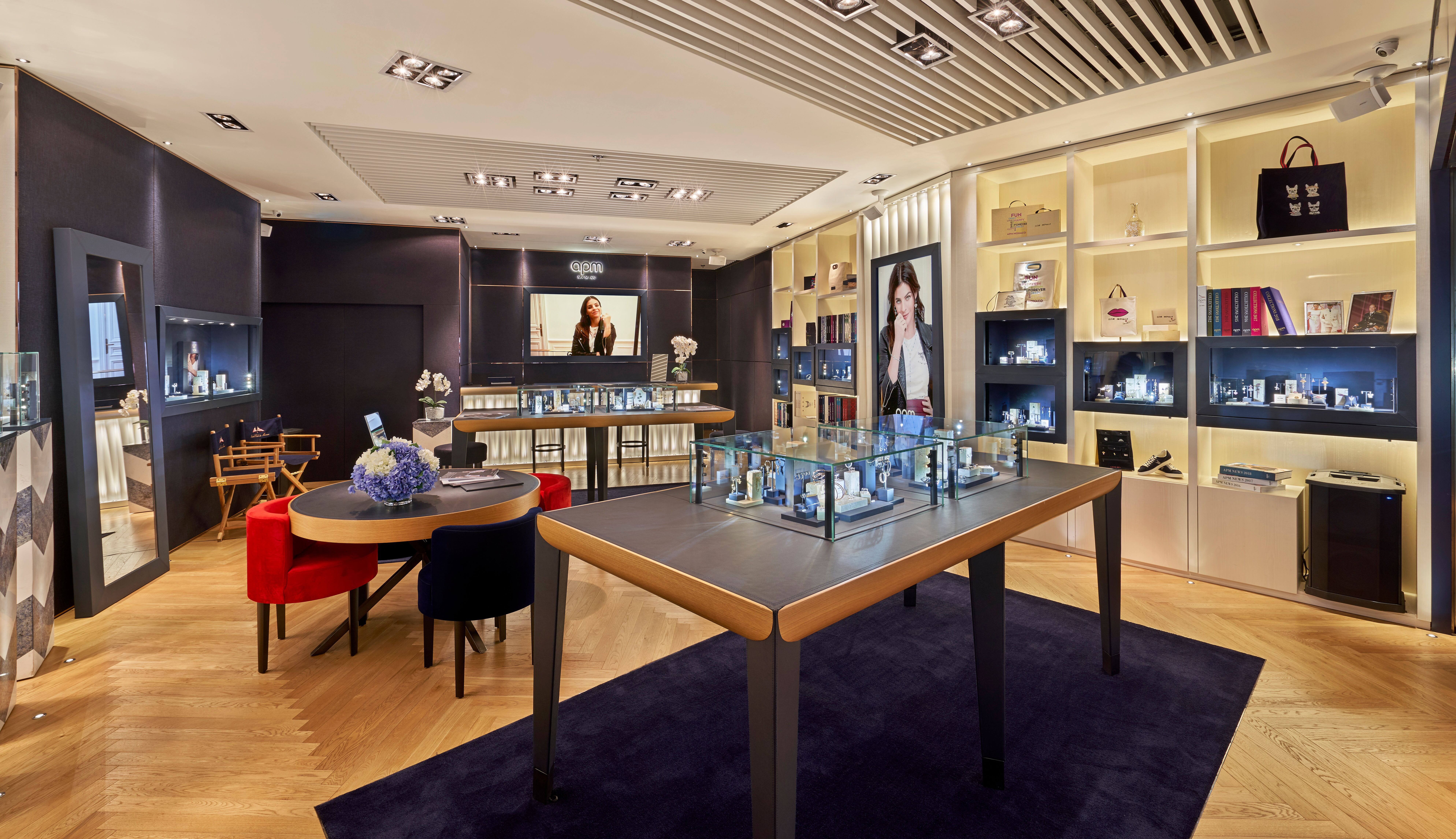 it is a picture token inside of APM Monaco boutique